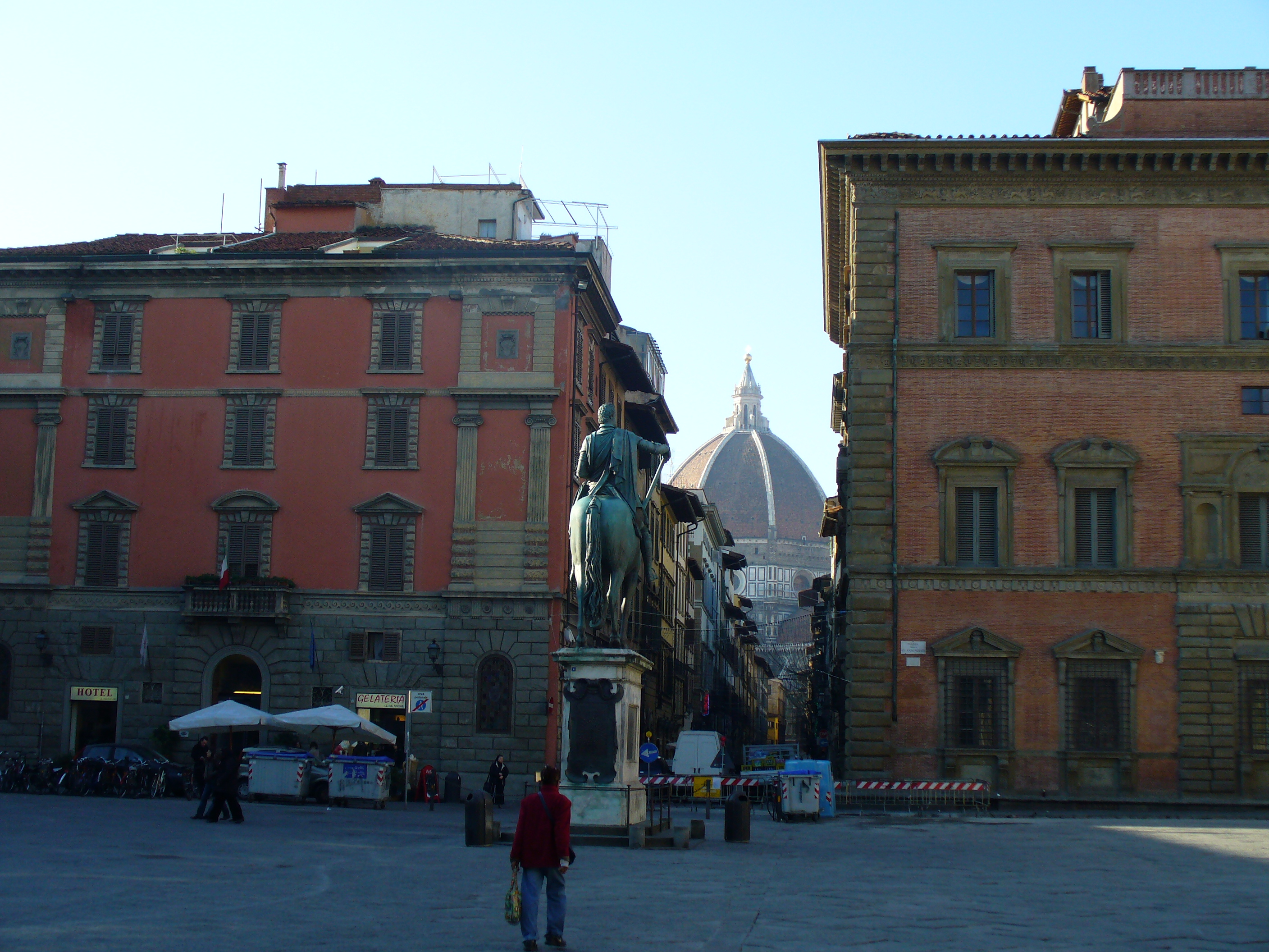 Piazza Santissima Annunziata